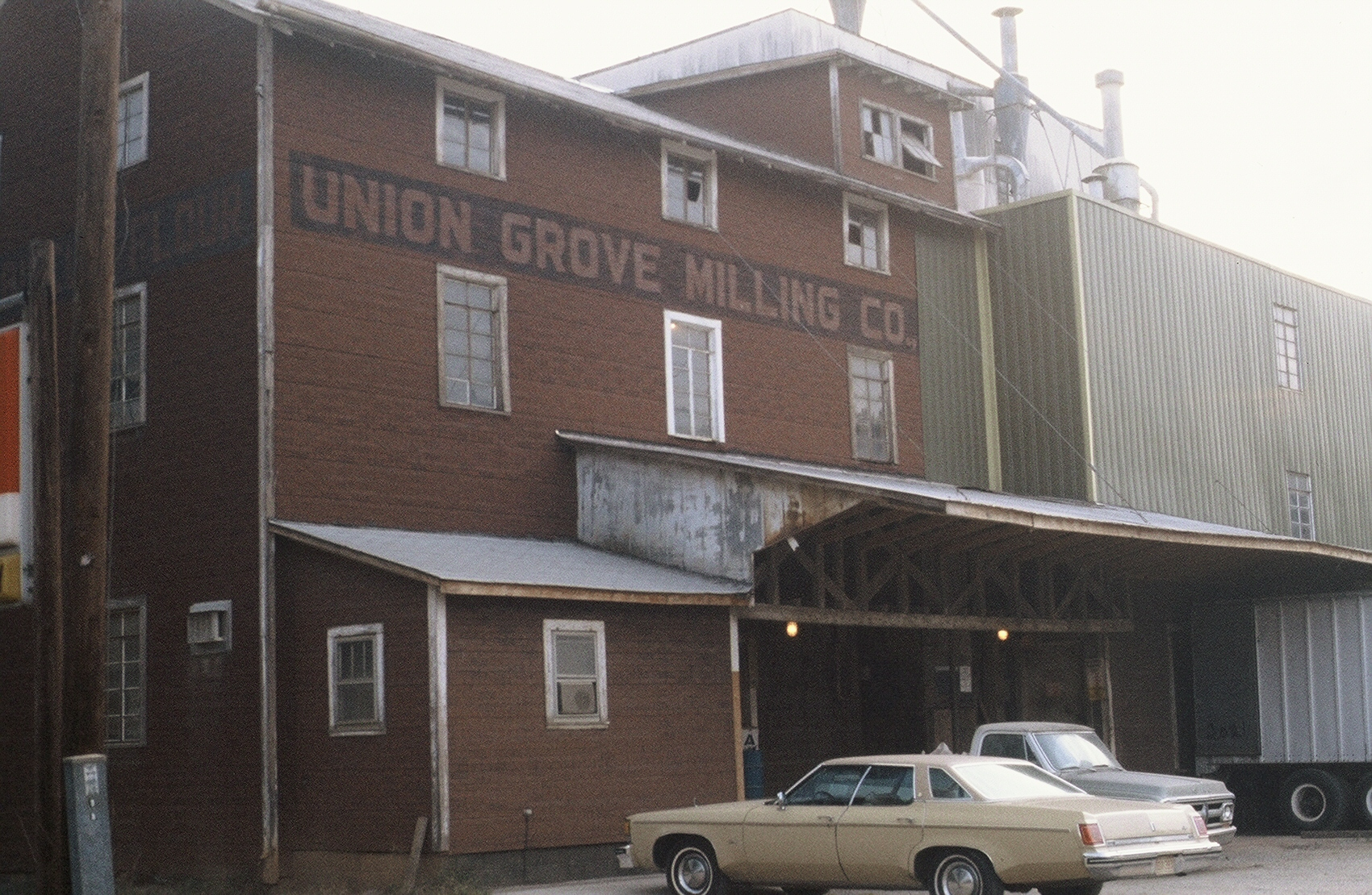 Union Grove Milling Company, Union Grove Township, North Carolina in 1982. Photographed by G. Moore.